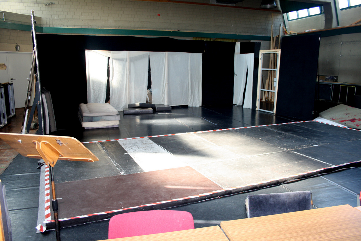 Stage setting, Theatre rehearsal